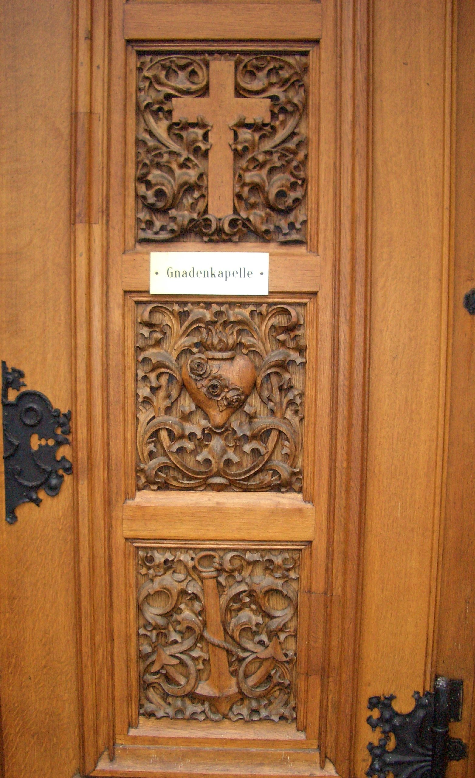 Symbols of the Christian virtues in Himmerod Abbey, Eifel, Germany (Cross=faith, heart=love, anchor=hope)